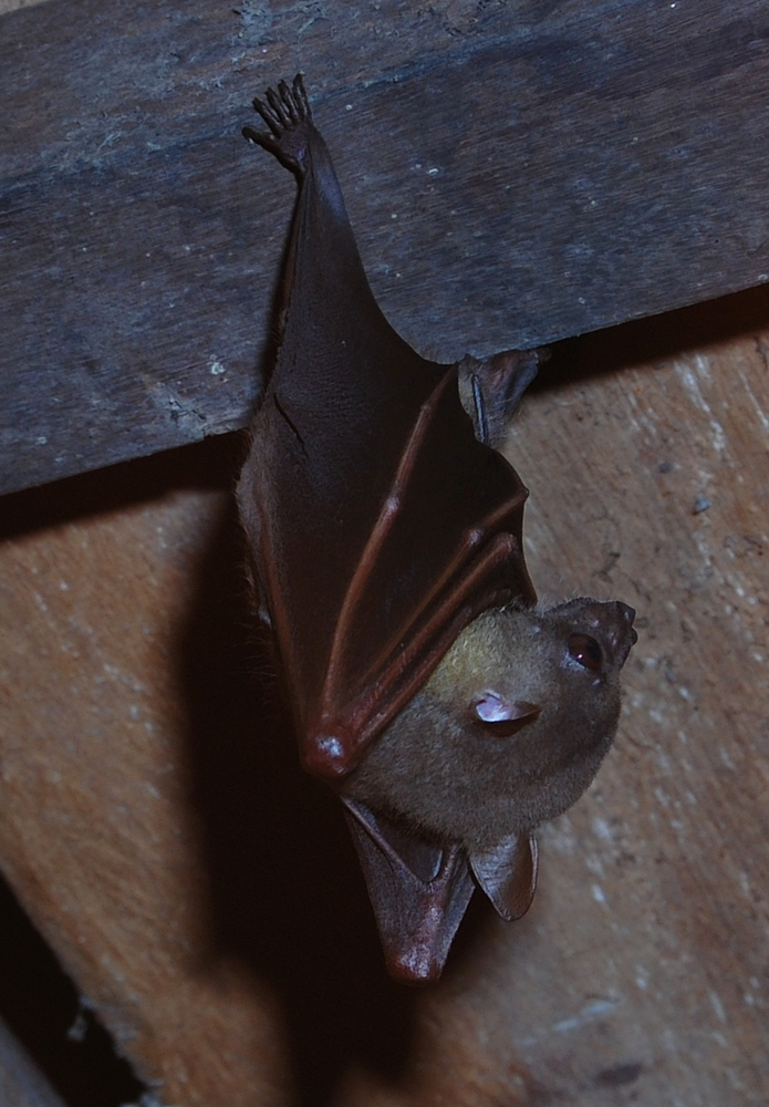 Minute Fruit Bat (Cynopterus minutus), forearm 54mm. From Simeulue, Aceh.